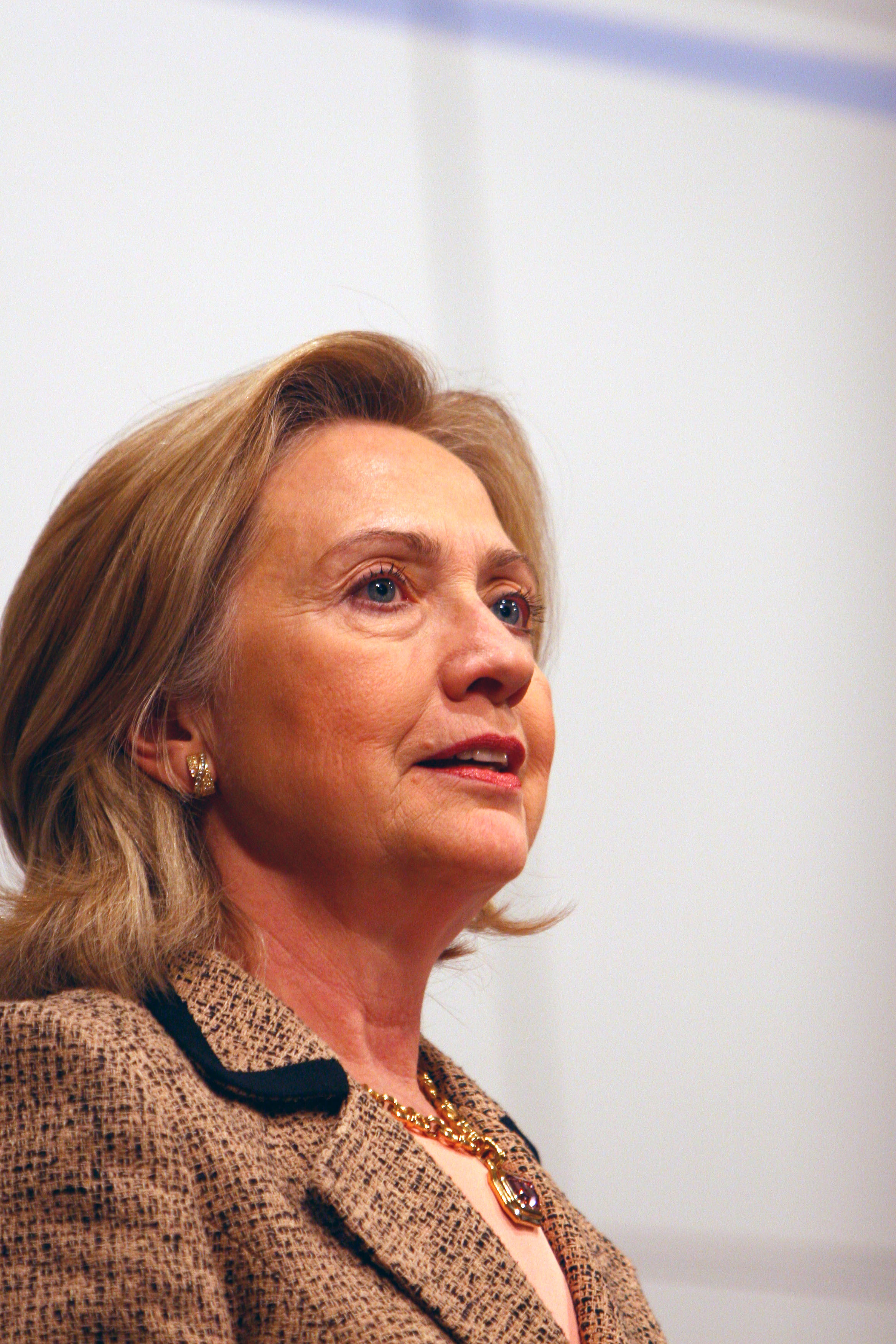 47th Munich Security Conference 2011: Hillary Clinton, Secretary of State, USA.